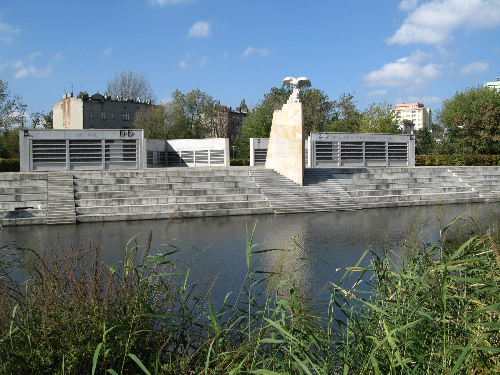 Monument in Survivors' Park in Łódź